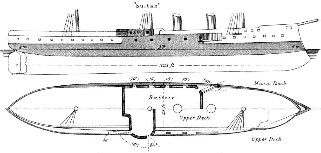 Diagrams depicting right elevation and plan views of British broadside ironclad battleship HMS Sultan (1870).